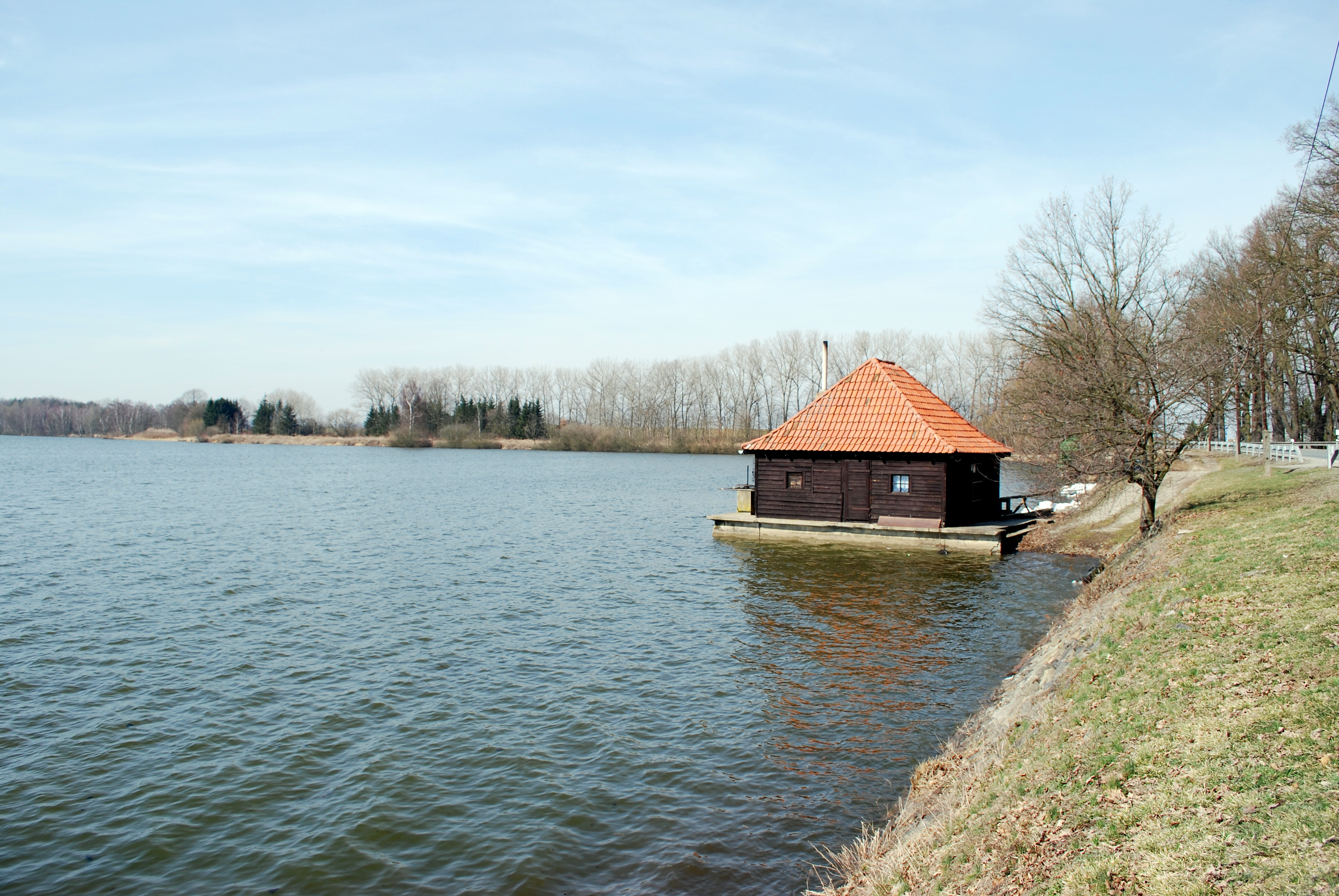 Horusický pond, view from dam This photograph was taken within the scope of the 'Czech Municipalities Photographs' grant. - OpenStreetMap(Info)